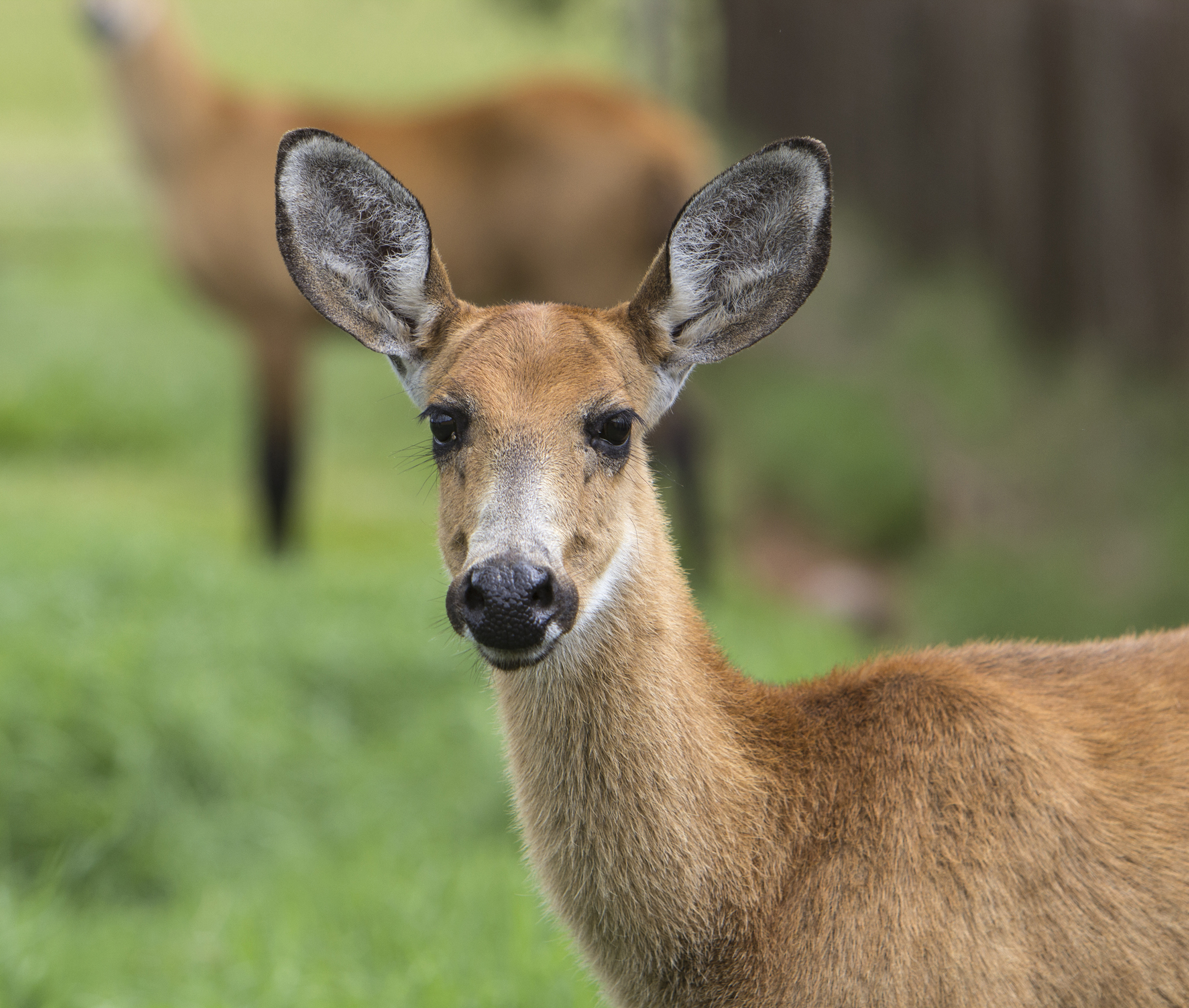 This surprisingly shy and secretive deer is actually the largest native deer species in South America. Marsh deer have large, primarily ornamental antlers, which are usually impressively forked, growing to about 60 centimetres in length and weighing, on average, about two kilograms. They are shed irregularly and may be retained for up to two years. Marsh deer also have well-developed hindquarters, making them good at jumping, which is the fastest way to move in water.The marsh deer has a shaggy, reddish chestnut coloured coat, with paler undersides of the neck and belly. The muzzle and lips are black, as are the lower legs. The eye is surrounded by a faint white ring and the large ears are lined with white hair. Marsh deer have long, broad hooves that are particularly adapted to the marshy environment, as they are joined by a special membrane and can spread out, giving the hooves a greater surface area, to prevent the deer from sinking into swampy ground.